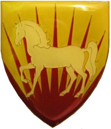 SADF era Middelburg Commando emblem